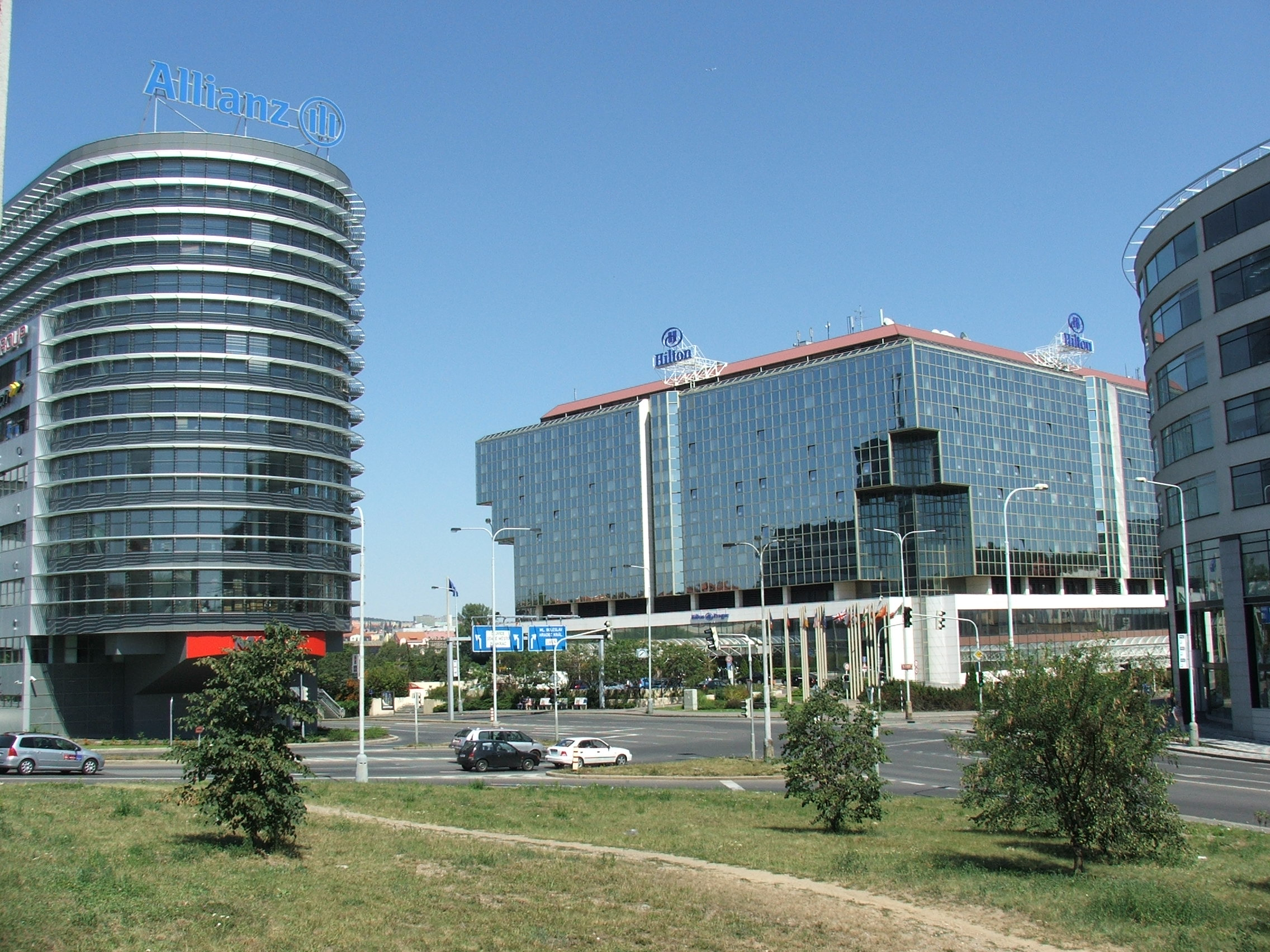 Hilton Hotel, Prague - Těšnov, Czechia, August 2007